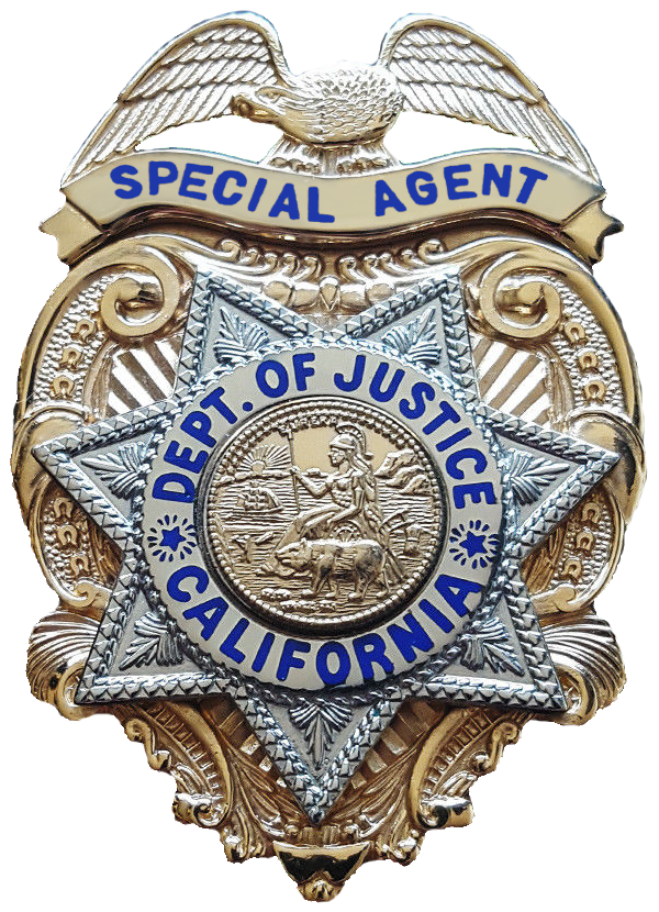 CA DOJ Special Agent Badge Realistic